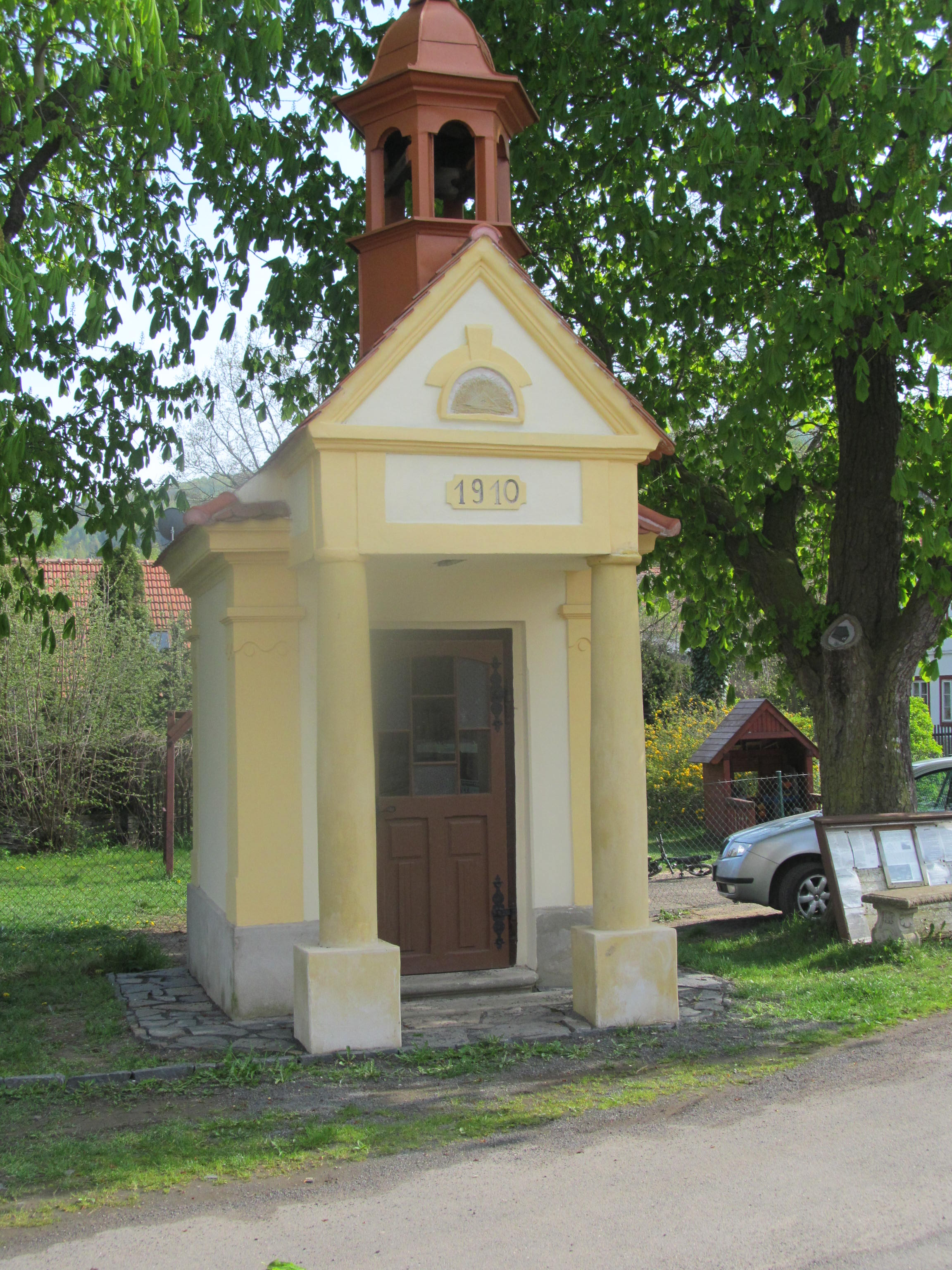 Chapel in Boreč